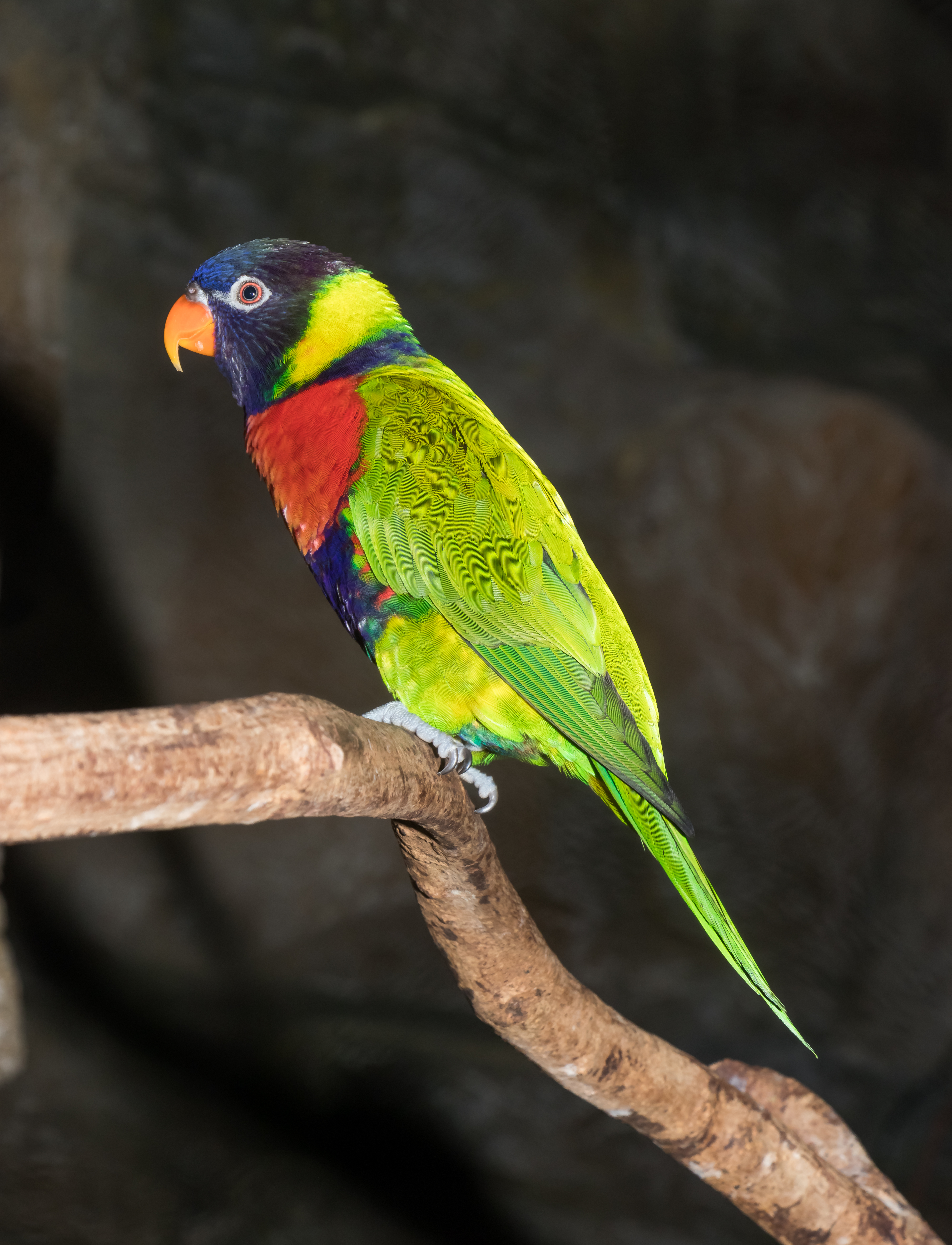 Trichoglossus forsteni forsteni Bonaparte, 1850, Sunset lorikeet; Karlsruhe Zoo, Karlsruhe, Germany.